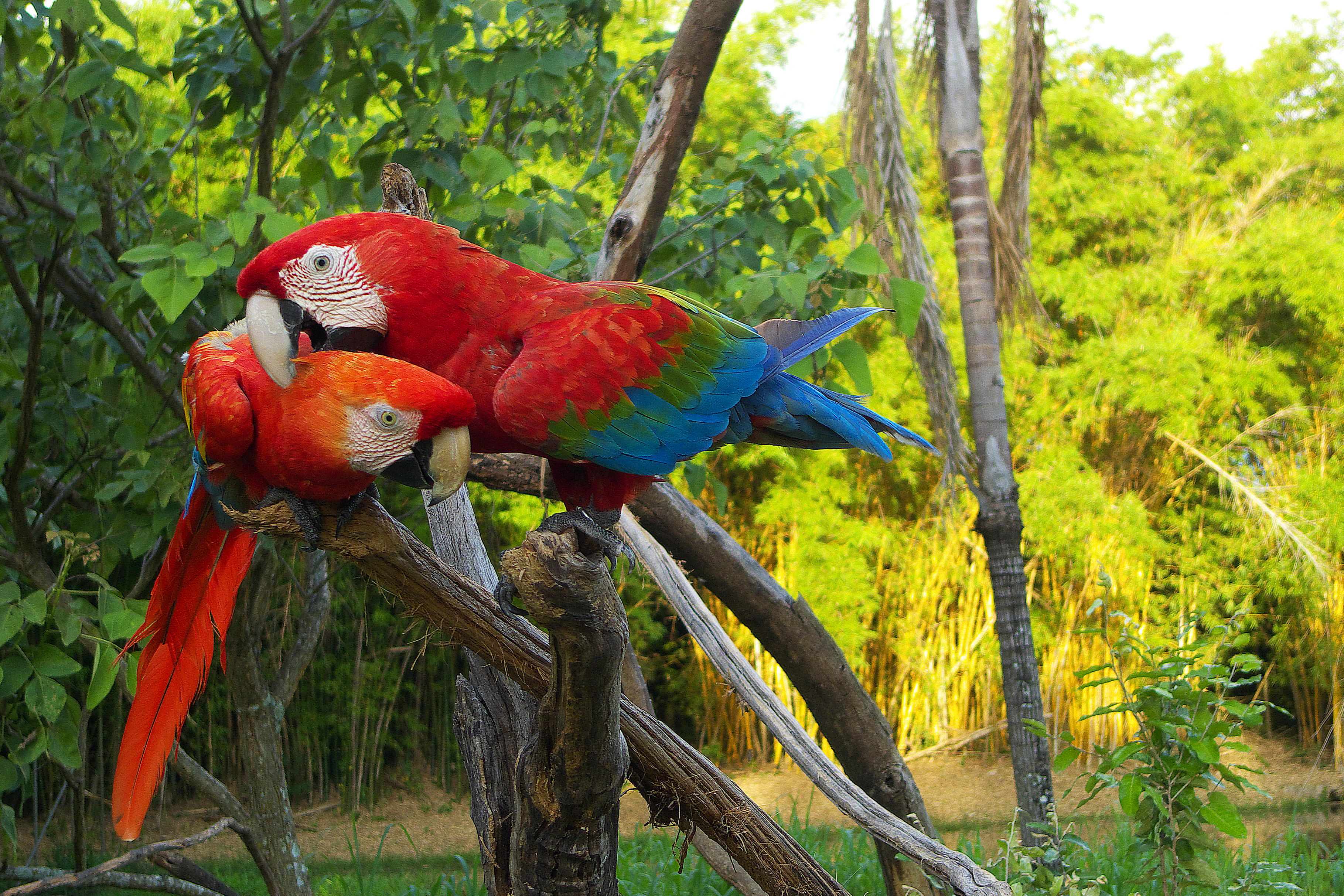 Aras In Brasil